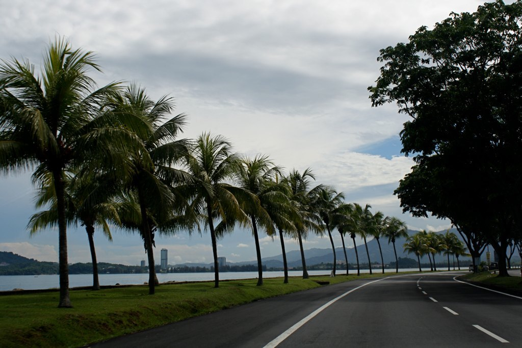 Costal drive, Sabah